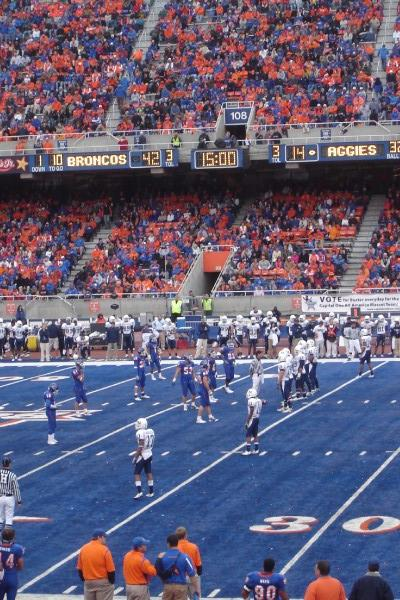 beginning of the 4th quarter of boise state vs utah state in boise idaho november 8 2008